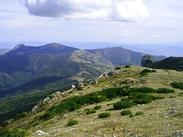 Jahorina (southern part) mountain range in Bosnia-Herzegovina